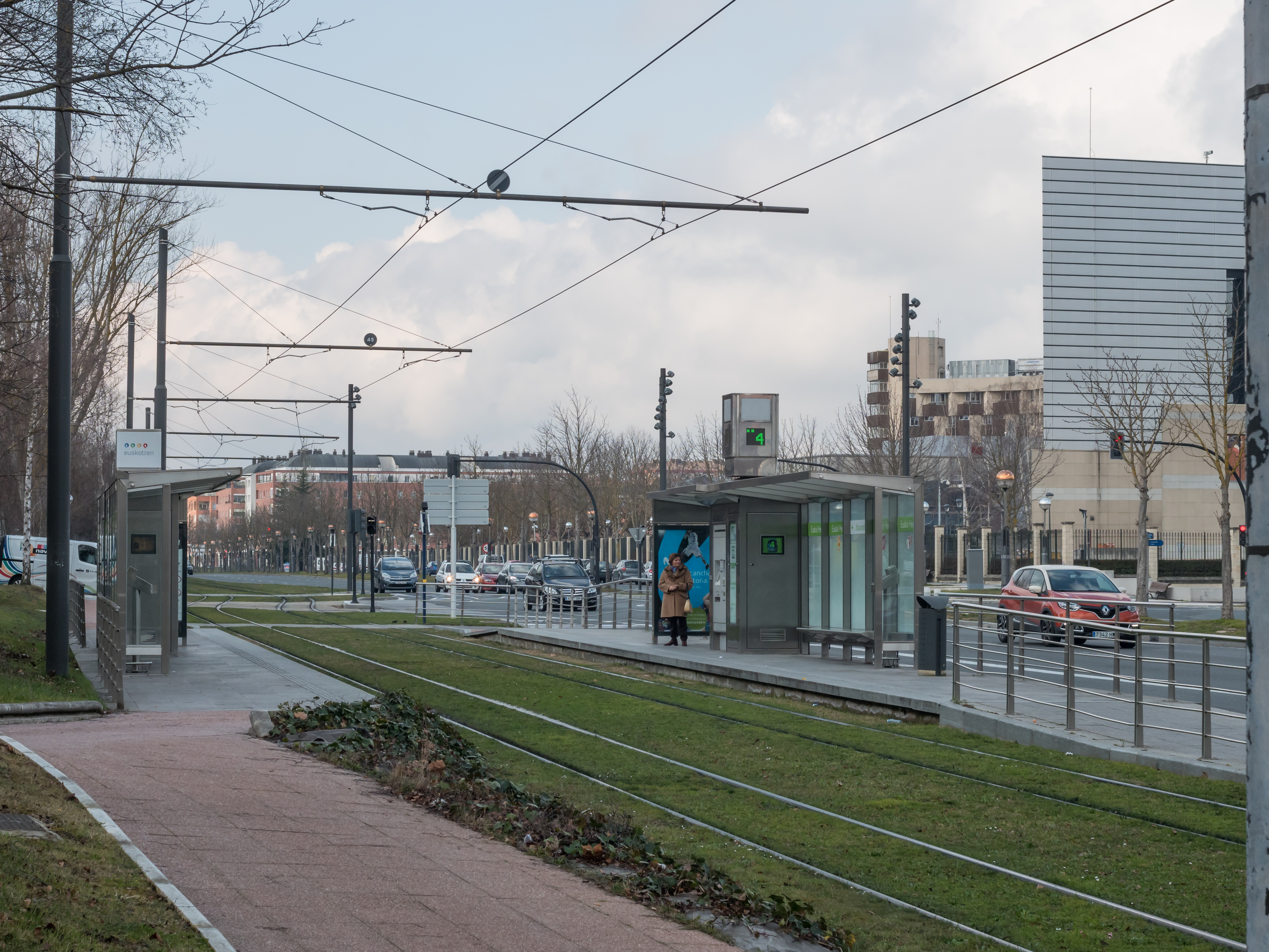 Tram stop "Euskal Herria" of the tramway of Vitoria-Gasteiz. Basque Country, Spain